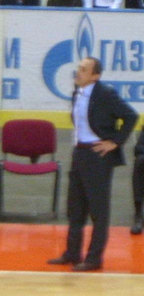 Ettore Messina, Italian basketball coach, working as a head coach of PBC CSKA Moscow. Russian Basketball Super League match in Yubileynyy Sports Palace, Saint-Petersburg, Russia. BC Spartak SPb VS PBC CSKA Moscow.